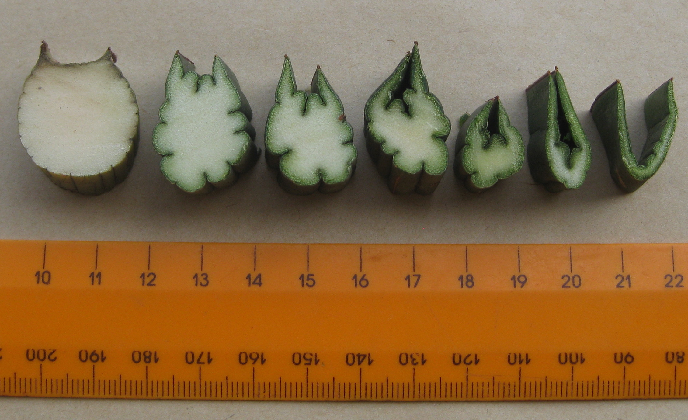 The leaves of this unidentified species of Sansevieria from Mount Maco (Balama, Mozambique) have a peculiar shape, almost cylindrical (D-shaped) at the base (left) up to thin and folded in the upper cm's (extreme right). Leaves are very long (up to 160 cm) and each growth has between 6 and 12 leaves. This particular leaf was 130 long and cut into transections distanced 20 cm apart.